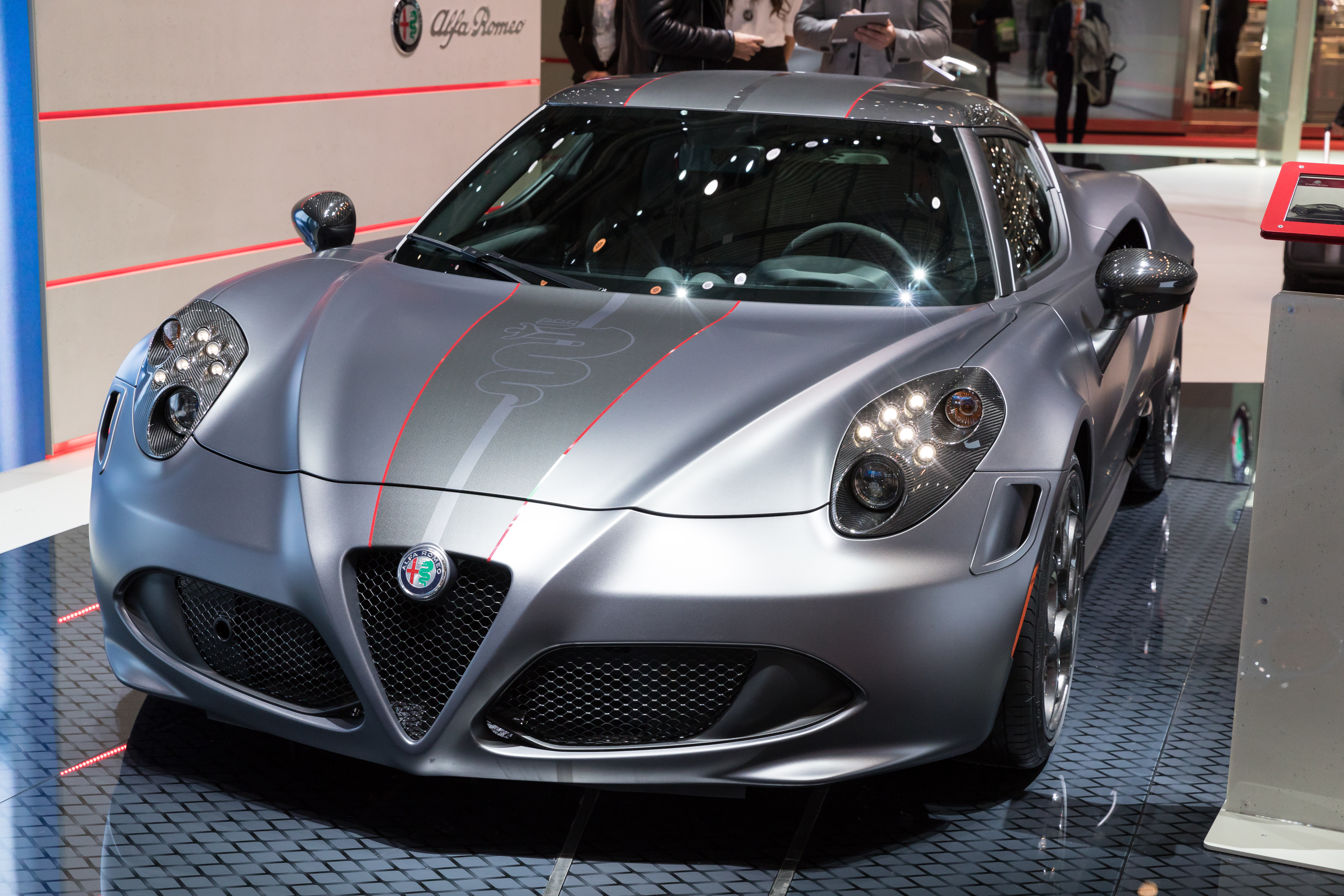 Geneva International Motor Show 2018